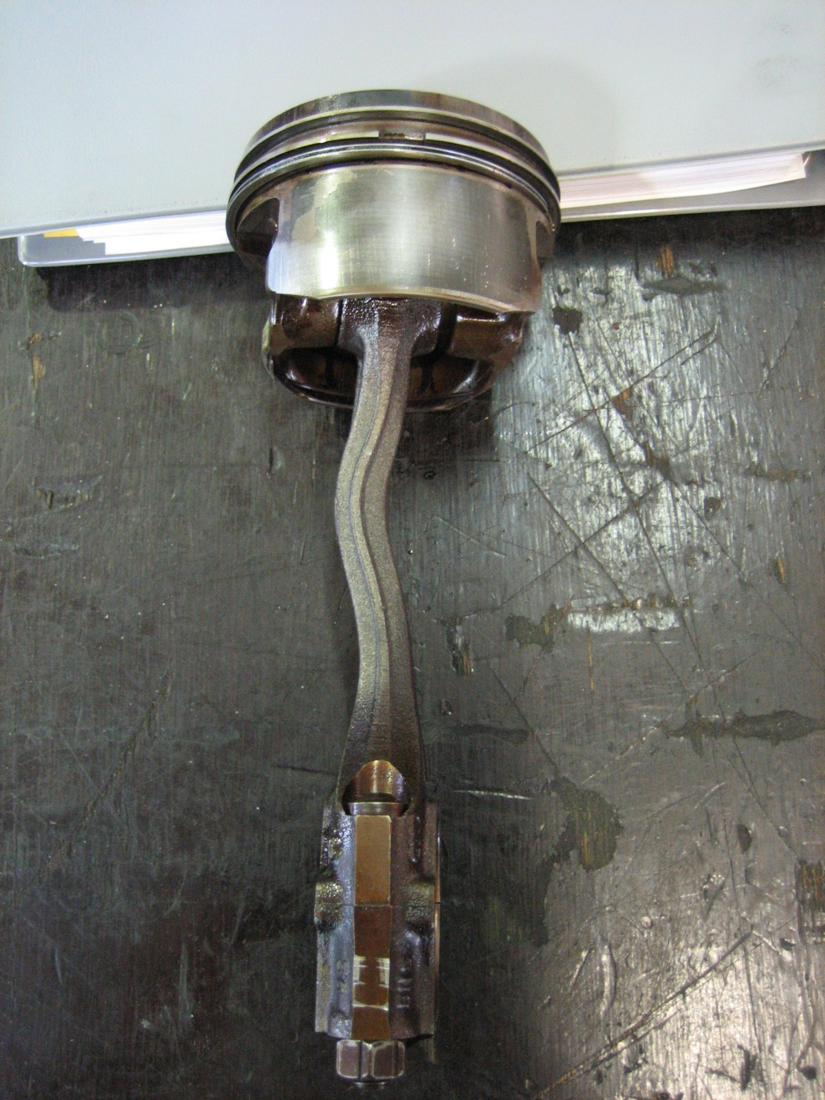 Connecting rod of a Seat Arosa after Hydrolock